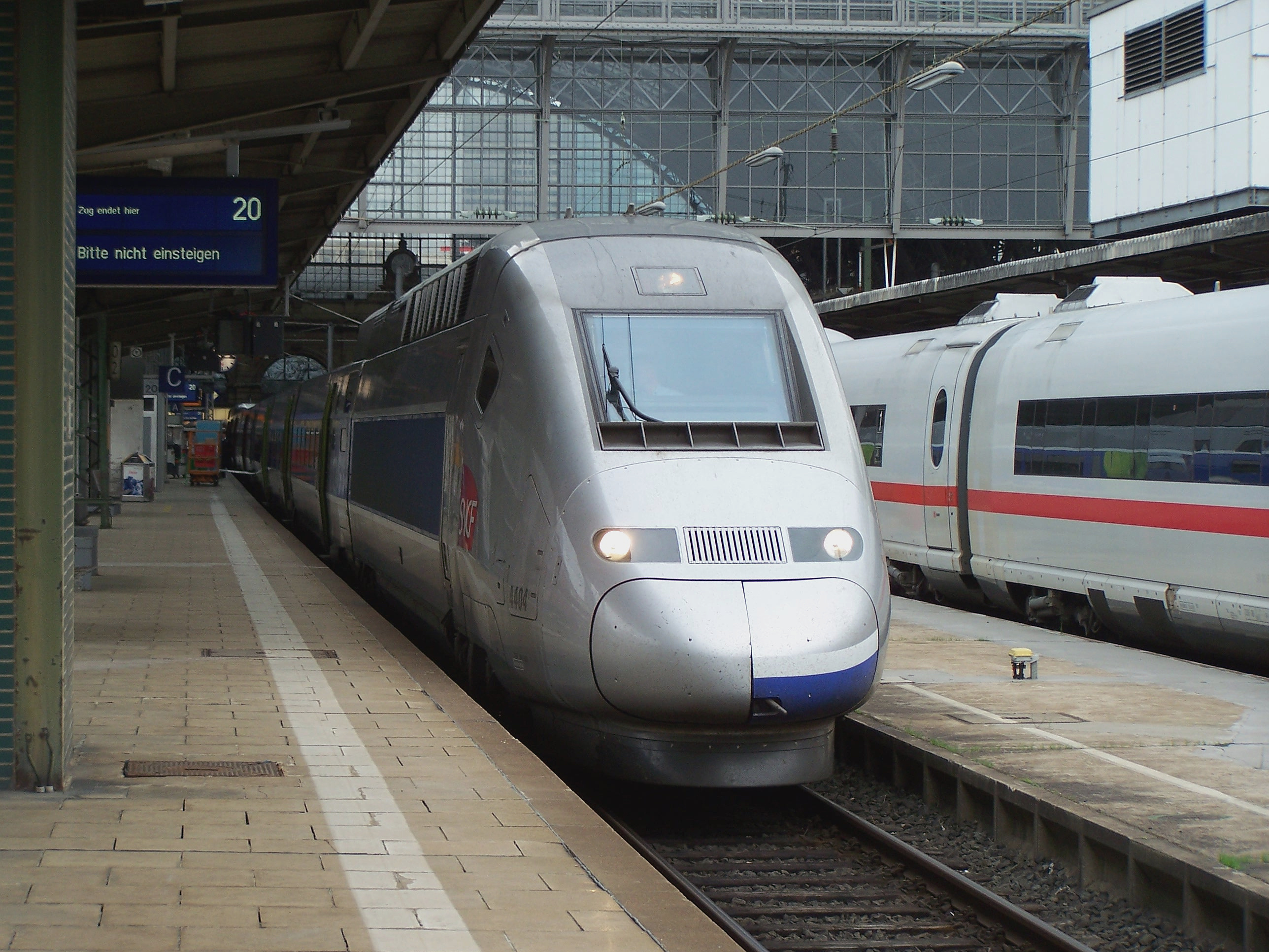 TGV POS No 4404 in the Frankfurt Central Station in Frankfurt am Main-Bahnhofsviertel